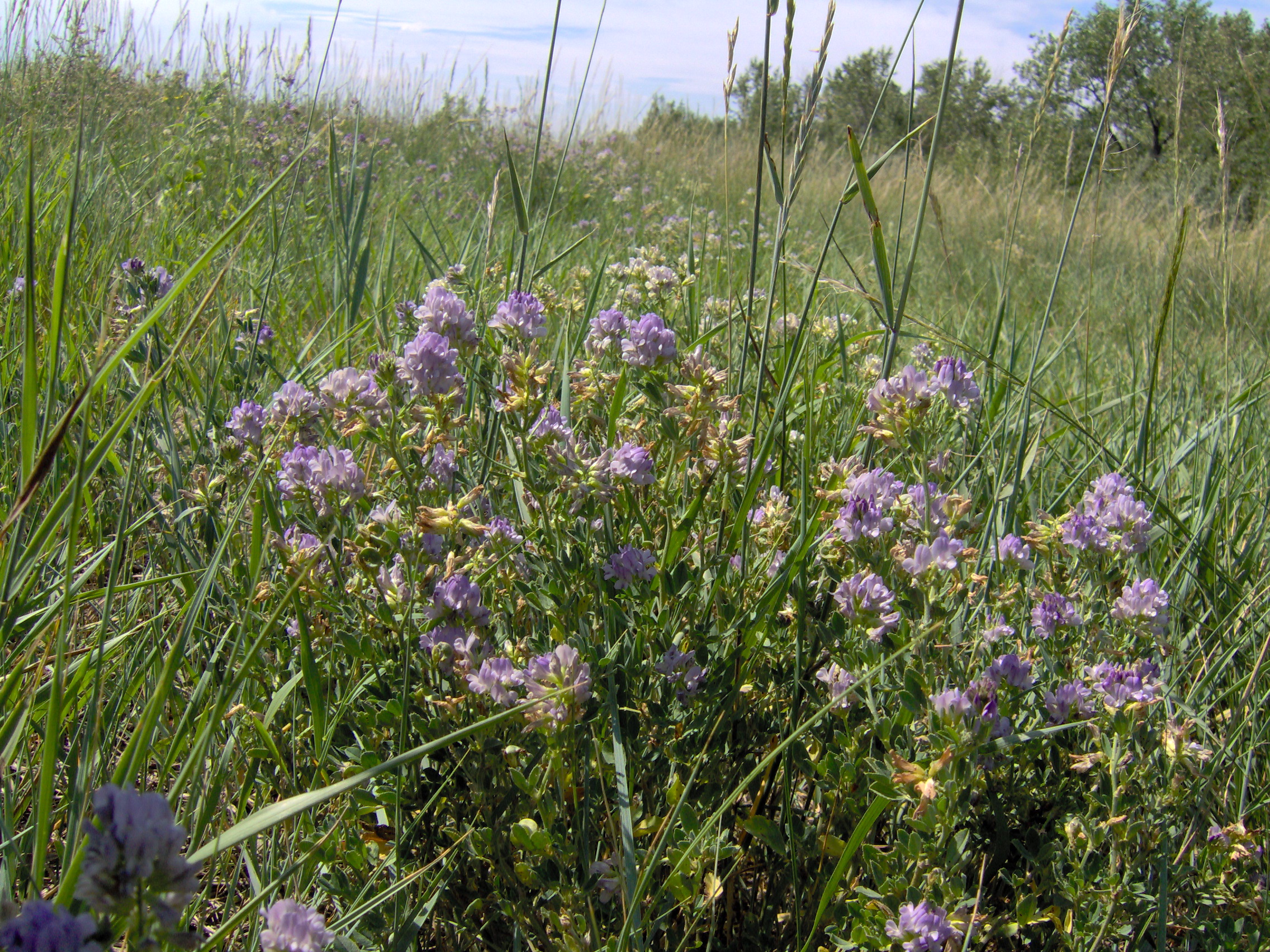 Purple Prairie Flower...It has a curly seed pod of the Purple prairie flower - a type of Fabaceae -Alfalfa Medicago sativa- see close up at Image:SKFabaceae.JPG and summer plant at Image:PurplePrairieFlower.JPG Primary flower colours can range from Blue, Yellow, Purple...or blue-violet to purple. Primary color and any variations from this list: purple, blue, green, yellow, orange, brown, red, pink or white.... Compare to Plant Detail: Medicago sativa Alfalfa (Medicago sativa) - Poisonous Plant Information Effect of chickling vetch (Lathyrus sativus L.) or alfalfa ... The Encyclopedia of Saskatchewan Alfalfa Medicago sativa A Field Guide to Wildflowers By Roger Tory Peterson, Margaret McKenny, National Audubon Society, Saskatchewan field in August, Alfalfa Medicago sativa